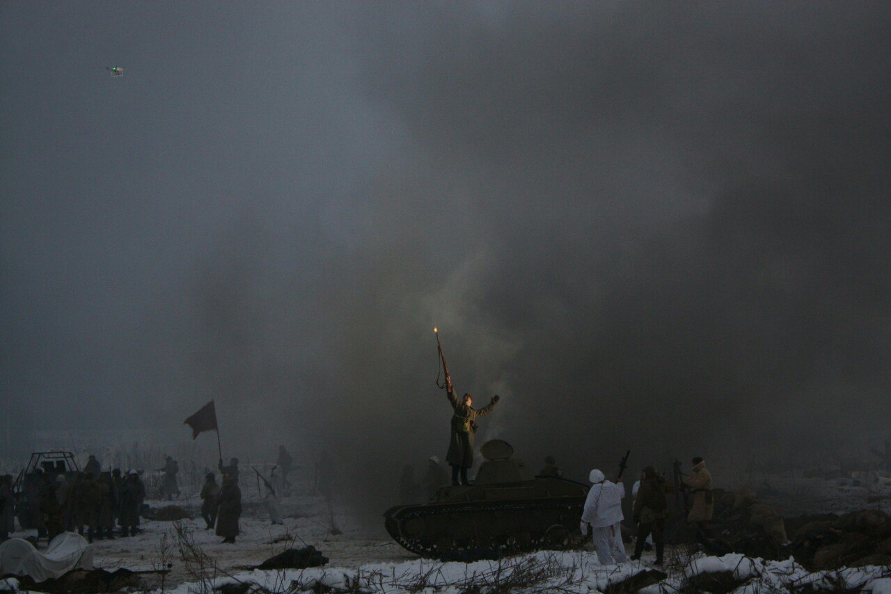 Military and historical reenactment "On the «Road of life»"